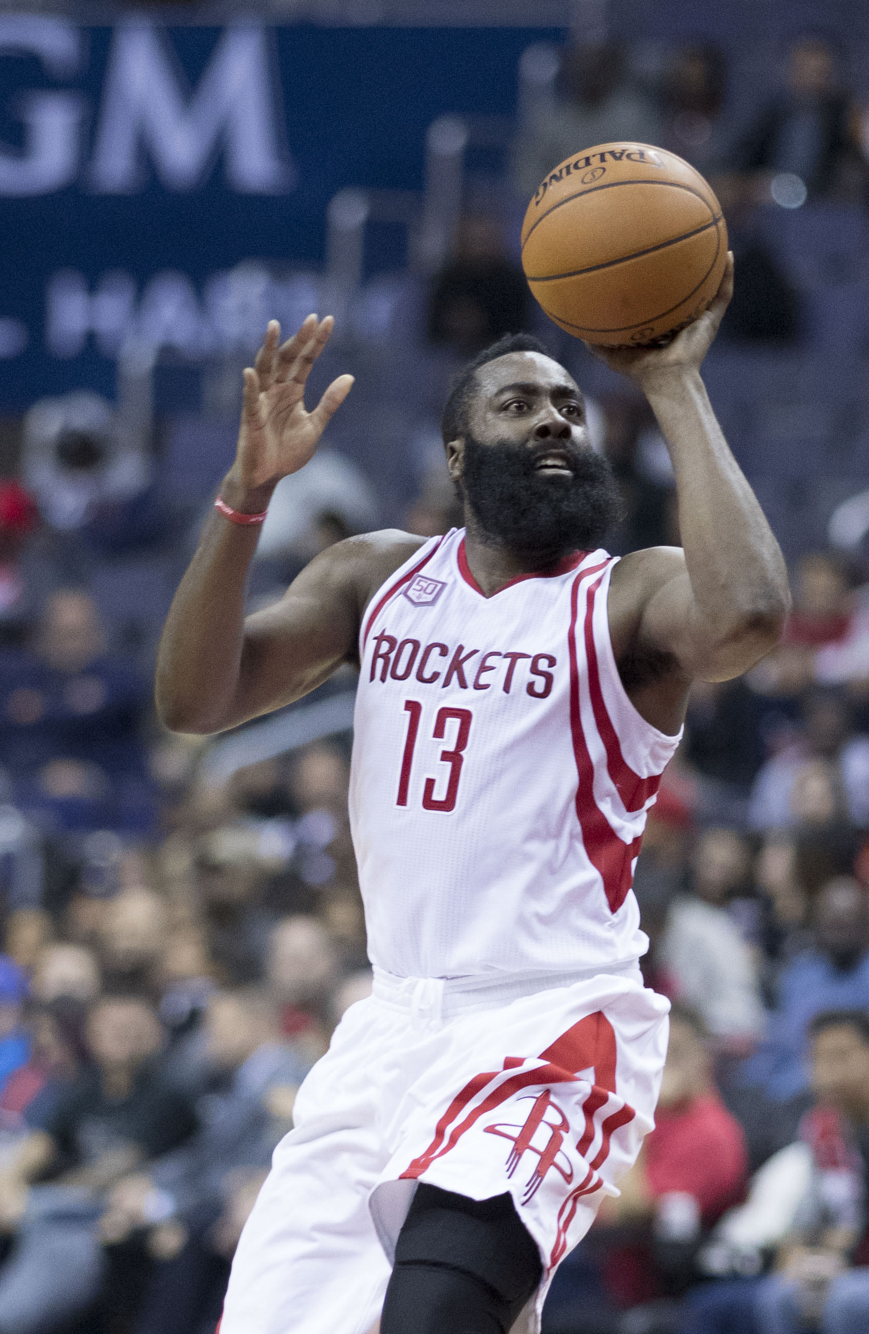 Rockets at Wizards 11/7/16